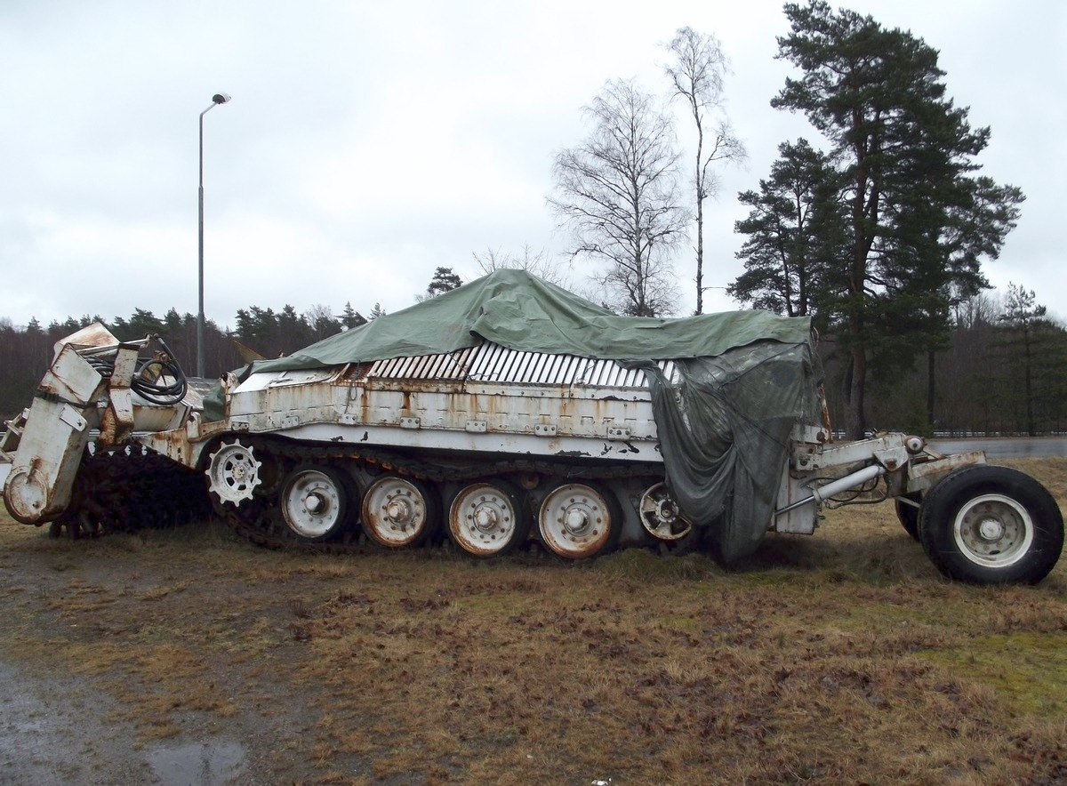 A deminer based on the Swedish main battle tank."'Stridsvagn 103'" or simply the S-Tank.